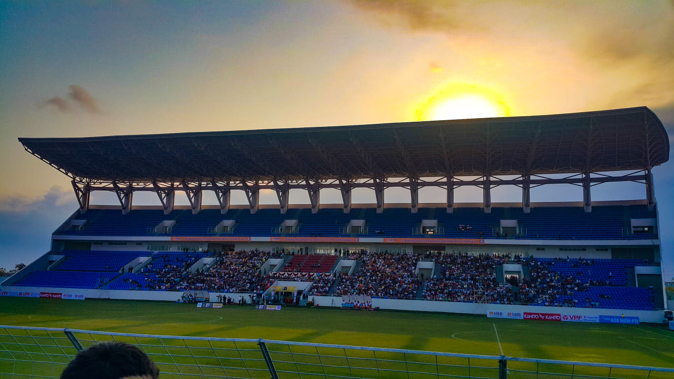 Hoa Xuan Stadium in sunset